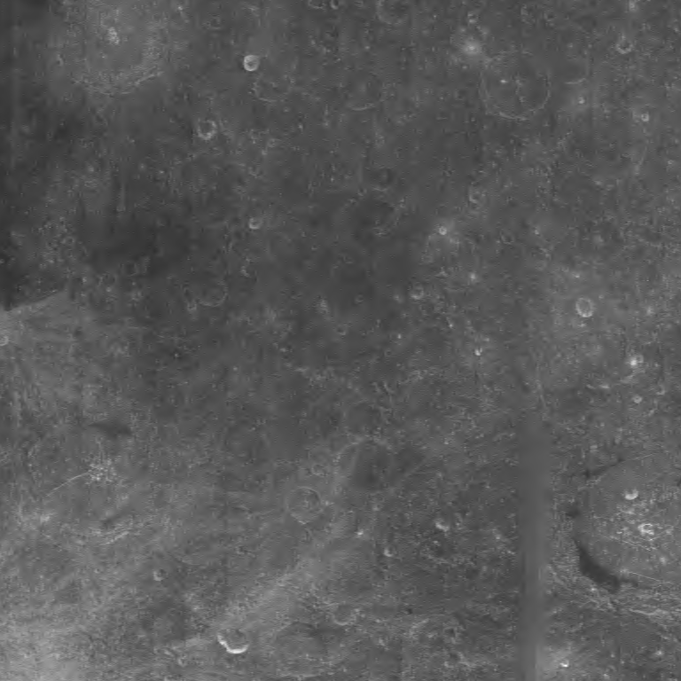 A picture of the area surrounding Balmer crater on Earth's moon. Balmer itself is almost indistinguishable from surrounding terrain. Humboldt crater is in lower right, and Petavius is in lower left.